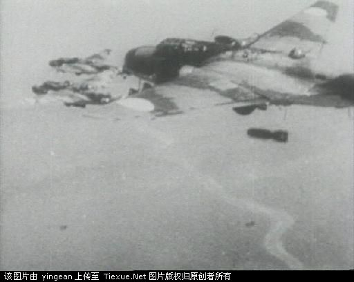 IJA bombers over Chungking. 日本海军96式陆上攻击机爆击重庆